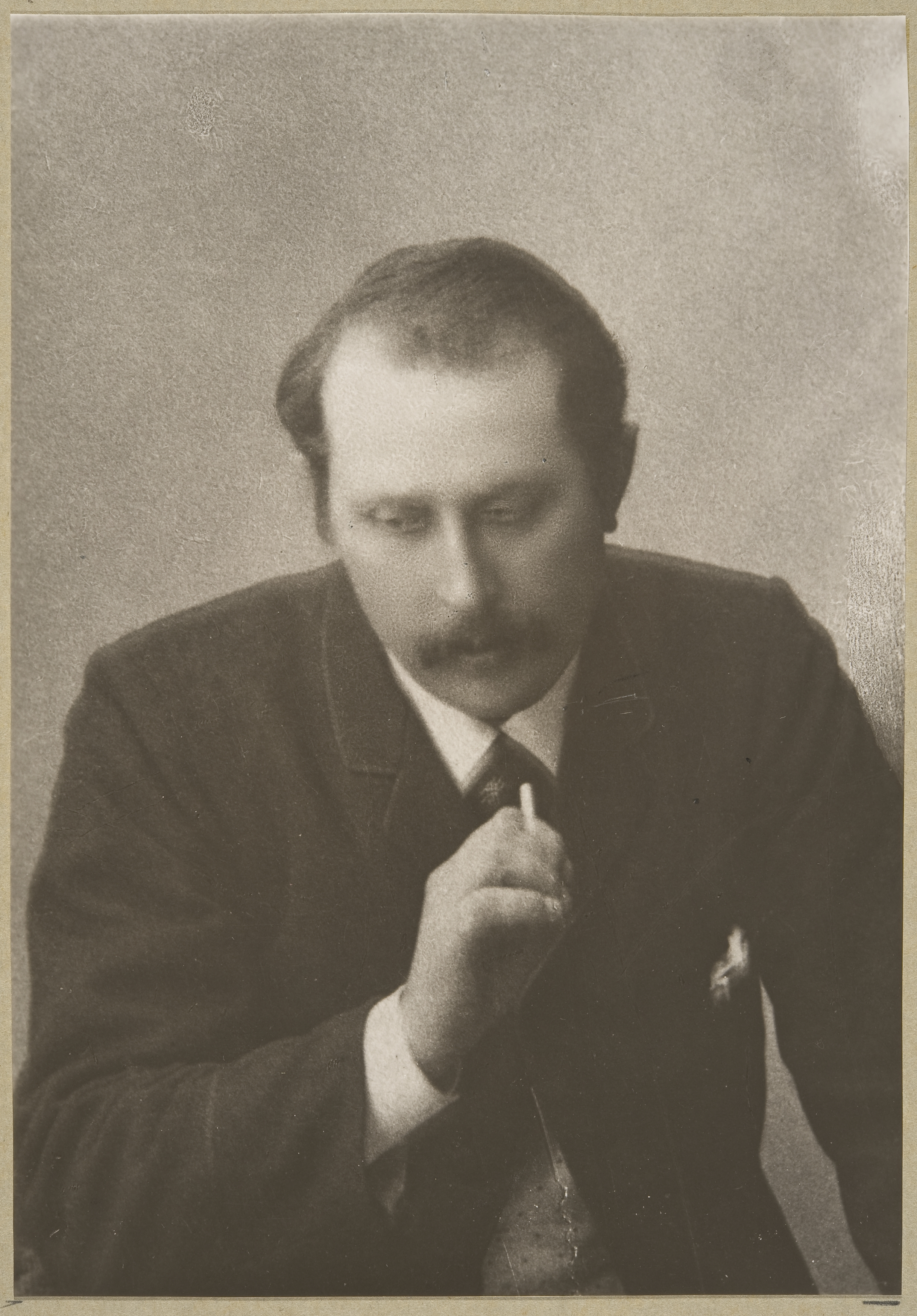 Photograph of the Finnish writer Hjalmar Nortamo (1860–1931).